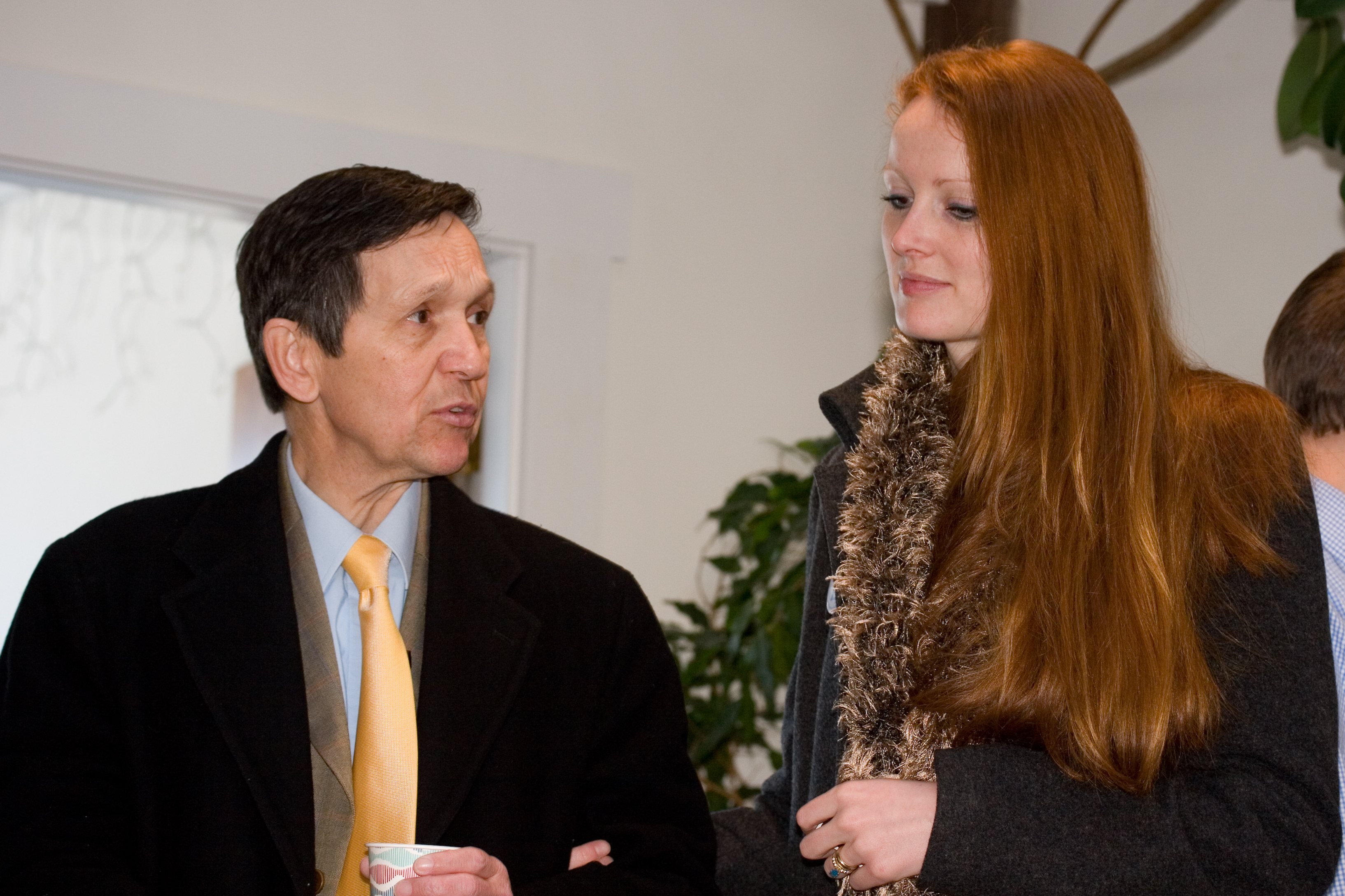 US Congressman & Presidential candidate Dennis Kucinich (left) with his wife, Elizabeth. Taken at a Democracy for New Hampshire candidate meet & greet event in Portsmouth, New Hampshire.